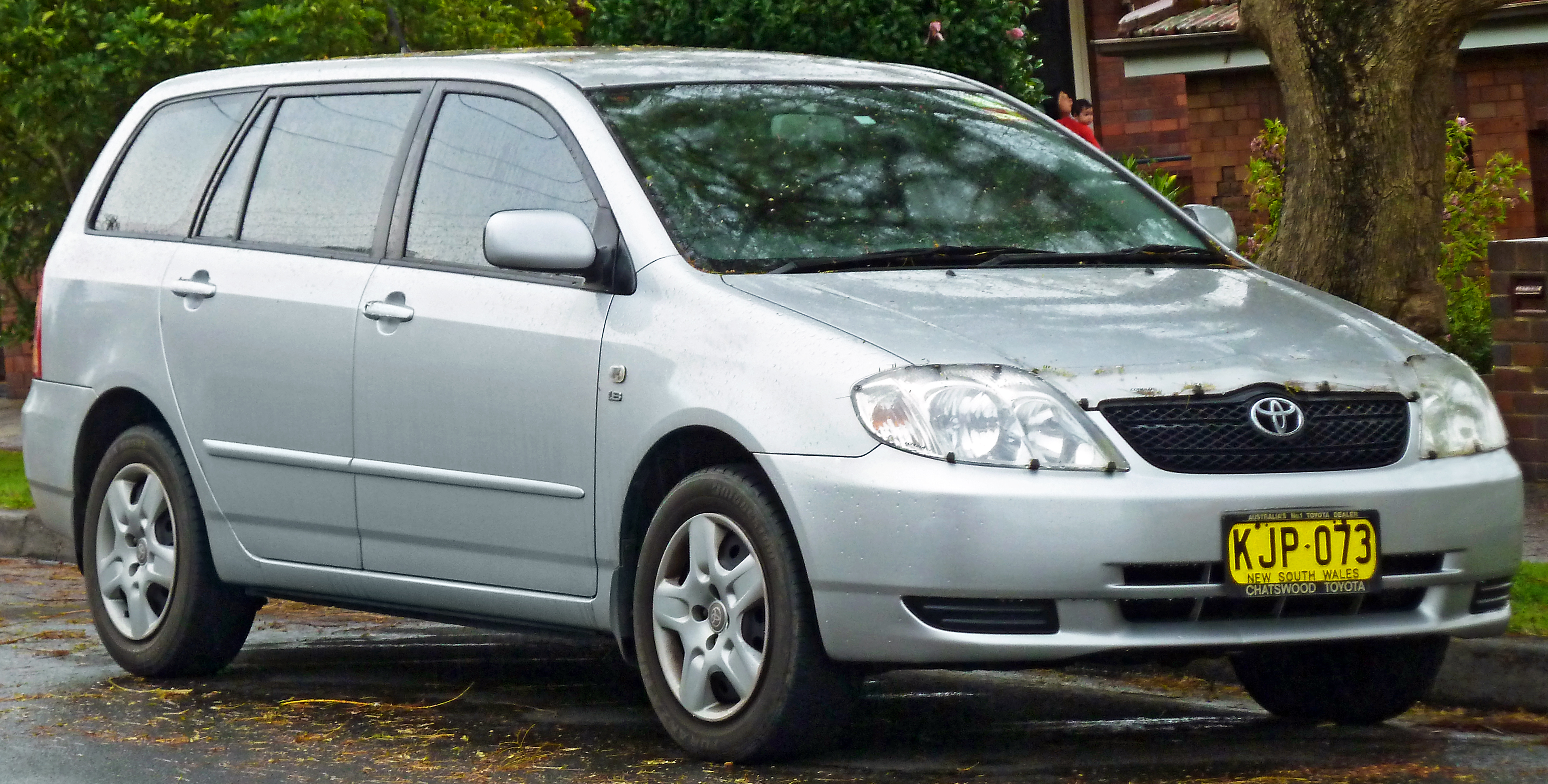 2001–2003 Toyota Corolla (ZZE122R) Conquest station wagon. Photographed in Chatswood, New South Wales, Australia.